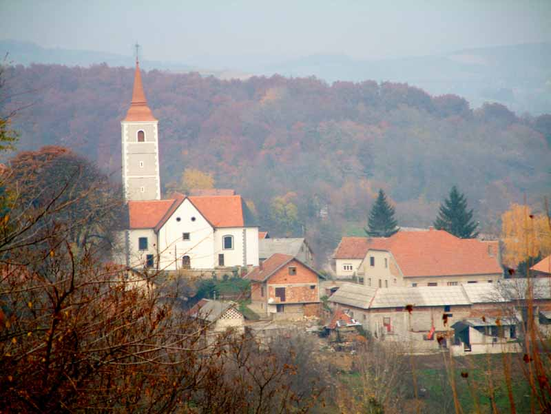 Hrašćina village, Croatia